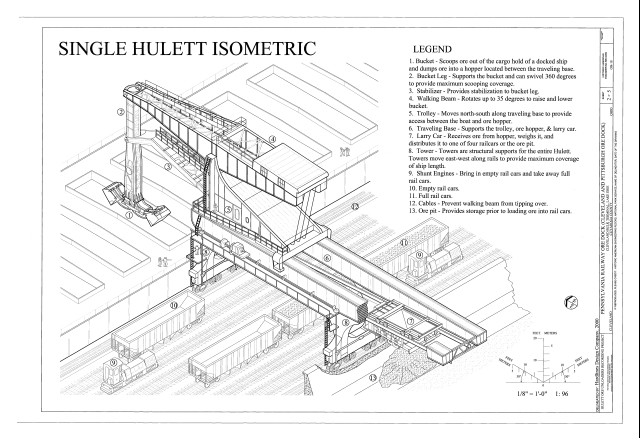 Diagram of a Hulett Ore unloader